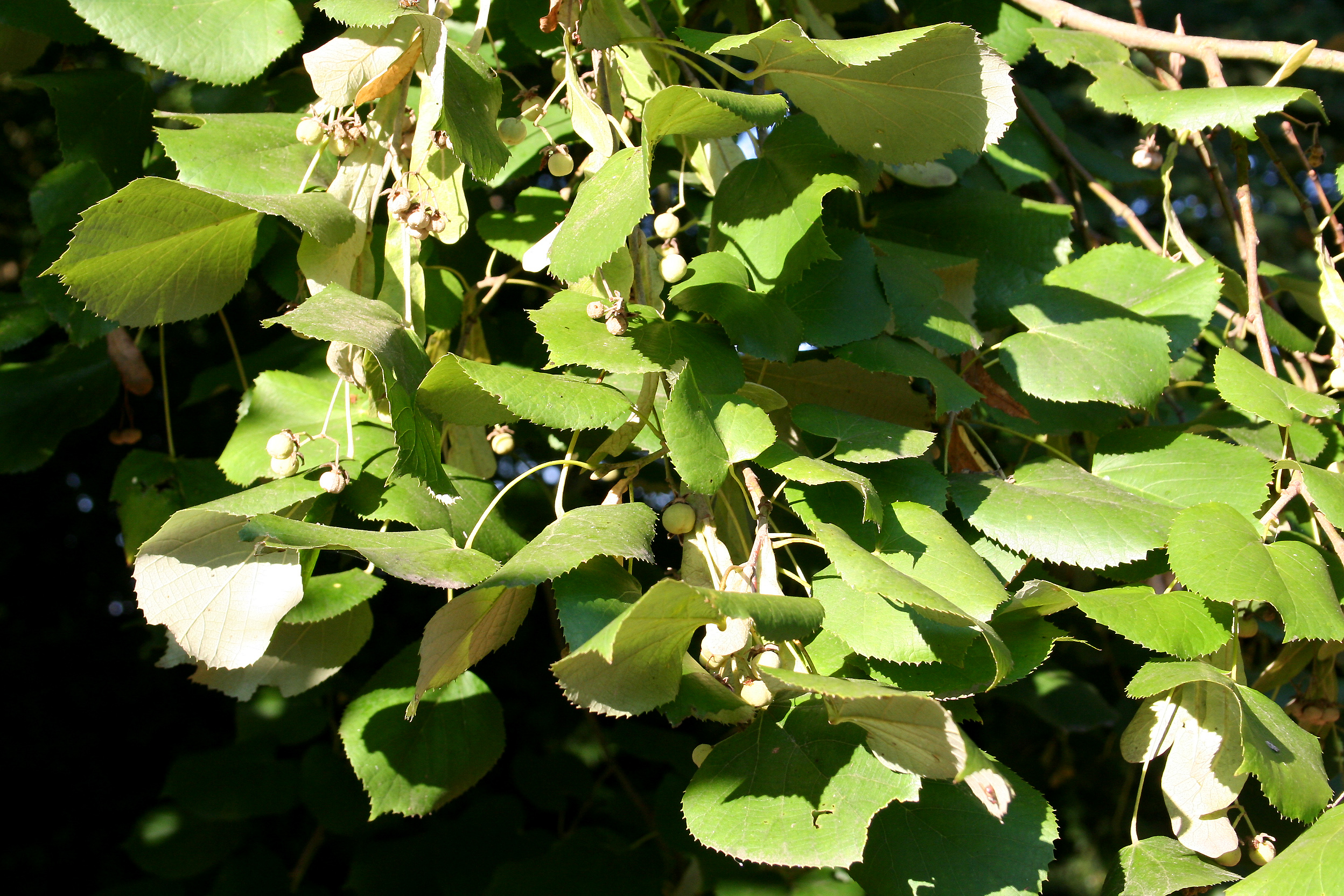 Weeping Silver Lime or Pendant Silver Linden. Walon: Tiyou di Hongrîye.